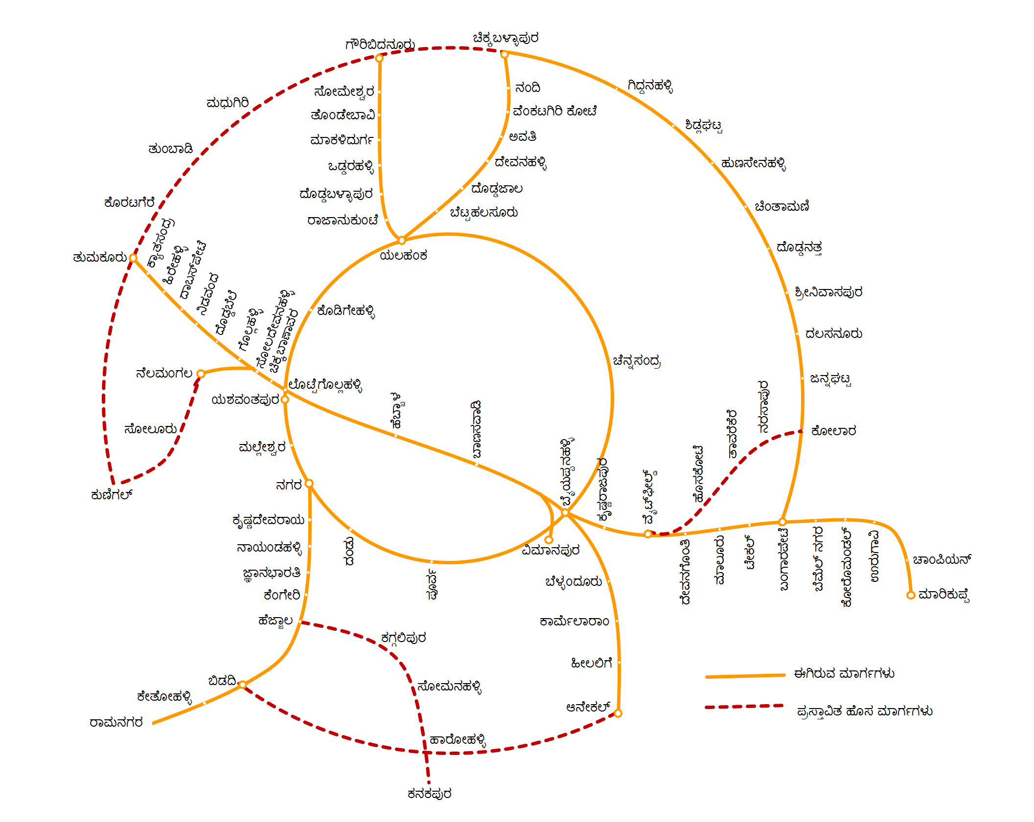 ಬೆಂಗಳೂರು ಉಪನಗರ ಹಳಿಬಂಡಿ ಜಾಲ